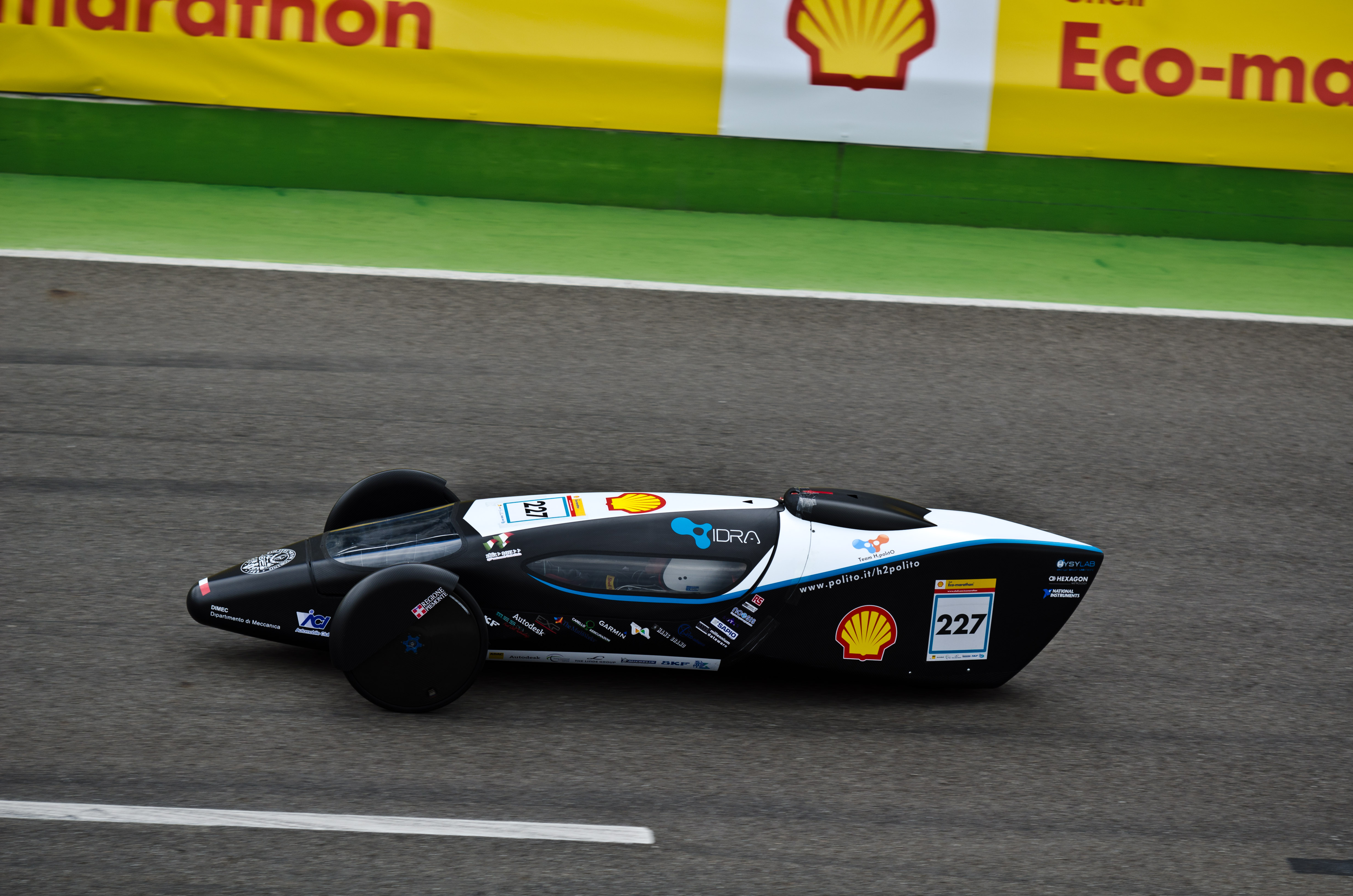 Prototype Idra11 at Shell Eco-marathon 2011, Lausitz